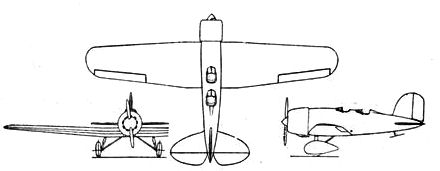 Lockheed Sirius 3-view drawing from L'Aerophile October 1932